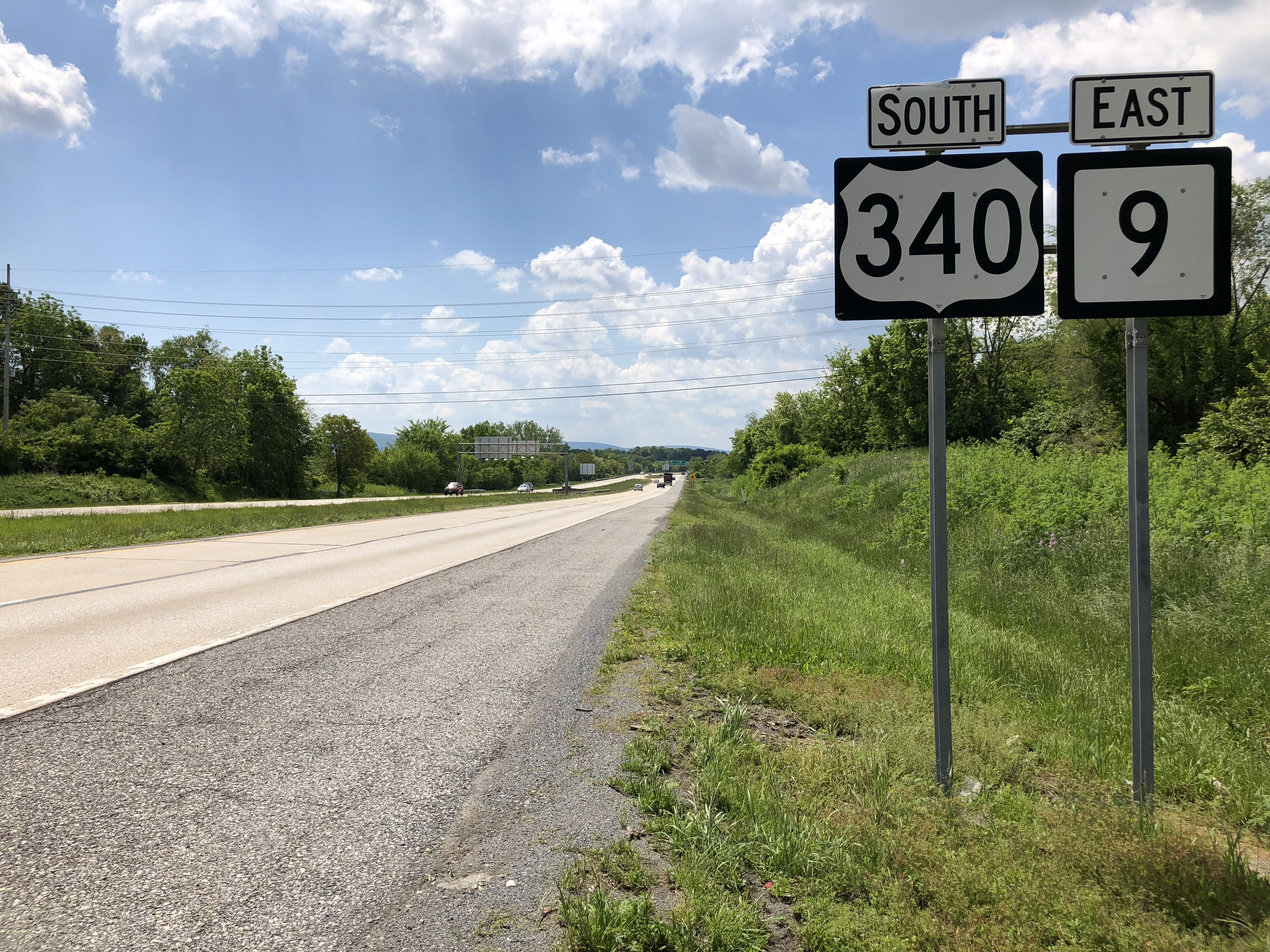 View south along U.S. Route 340 and east along West Virginia State Route 9 just south of West Virginia State Route 51 (Washington Street) in Charles Town, Jefferson County, West Virginia